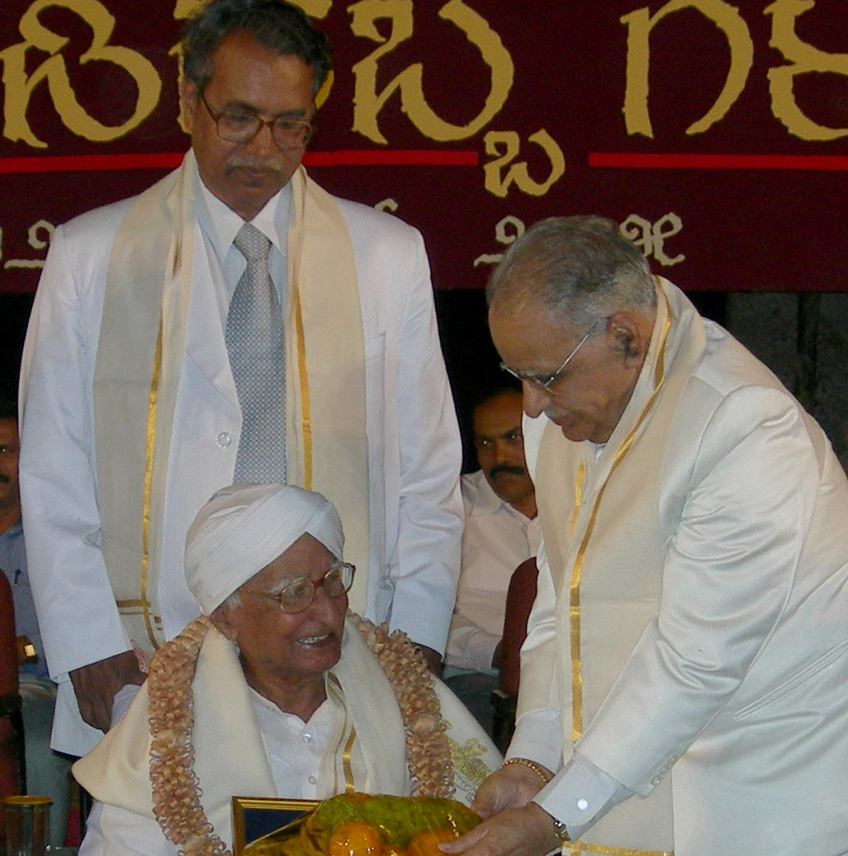 folklorist in kannada ಬಾಳಪ್ಪ ಹುಕ್ಕೆರಿ